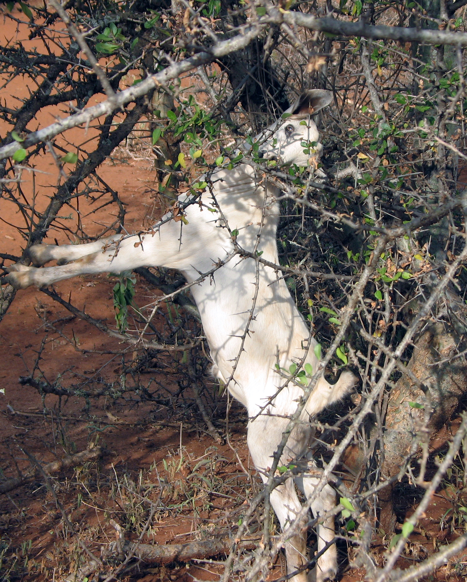 Taken on an African Safari